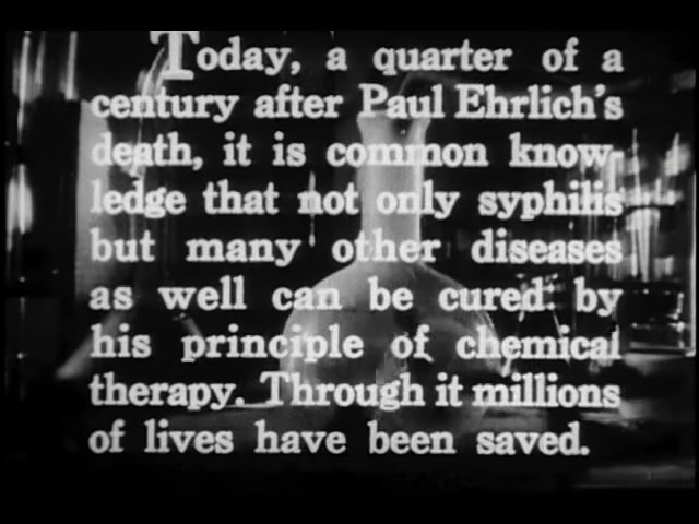 Closing screen of 1943 educational film Magic Bullets